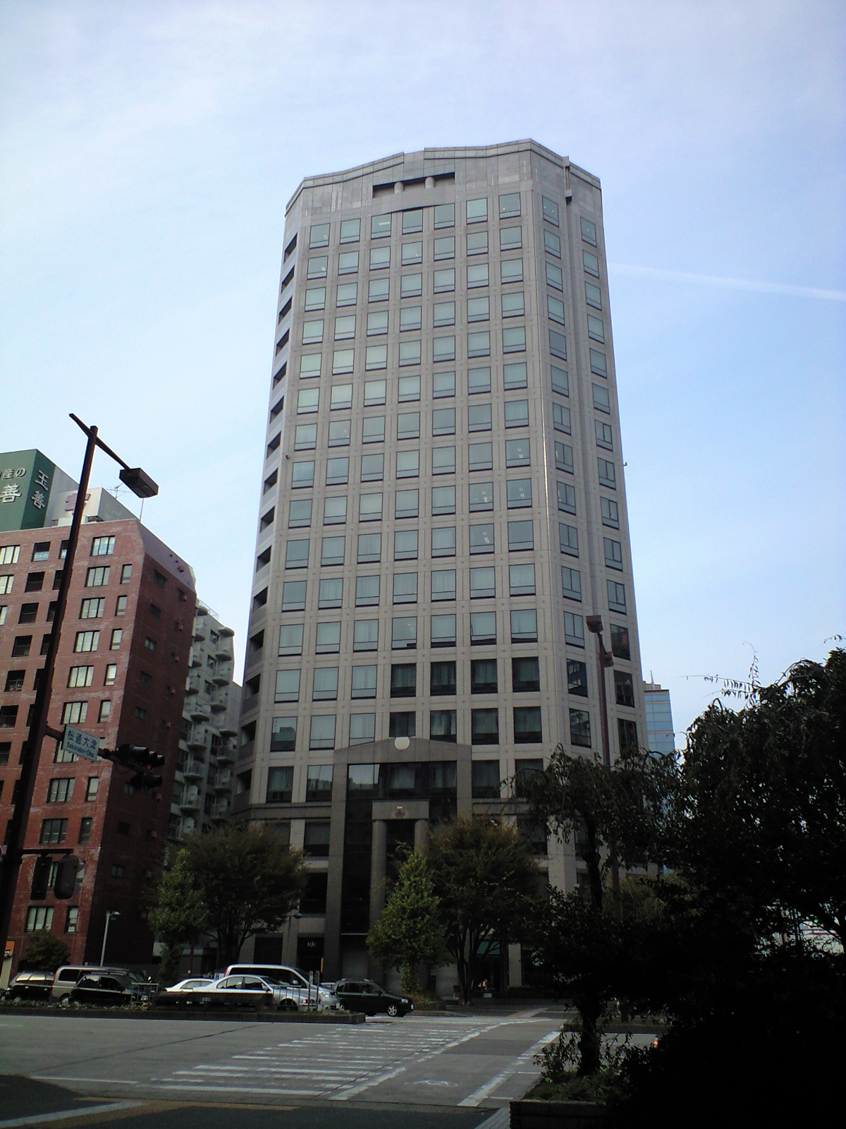 The building moving into ZIP-FM